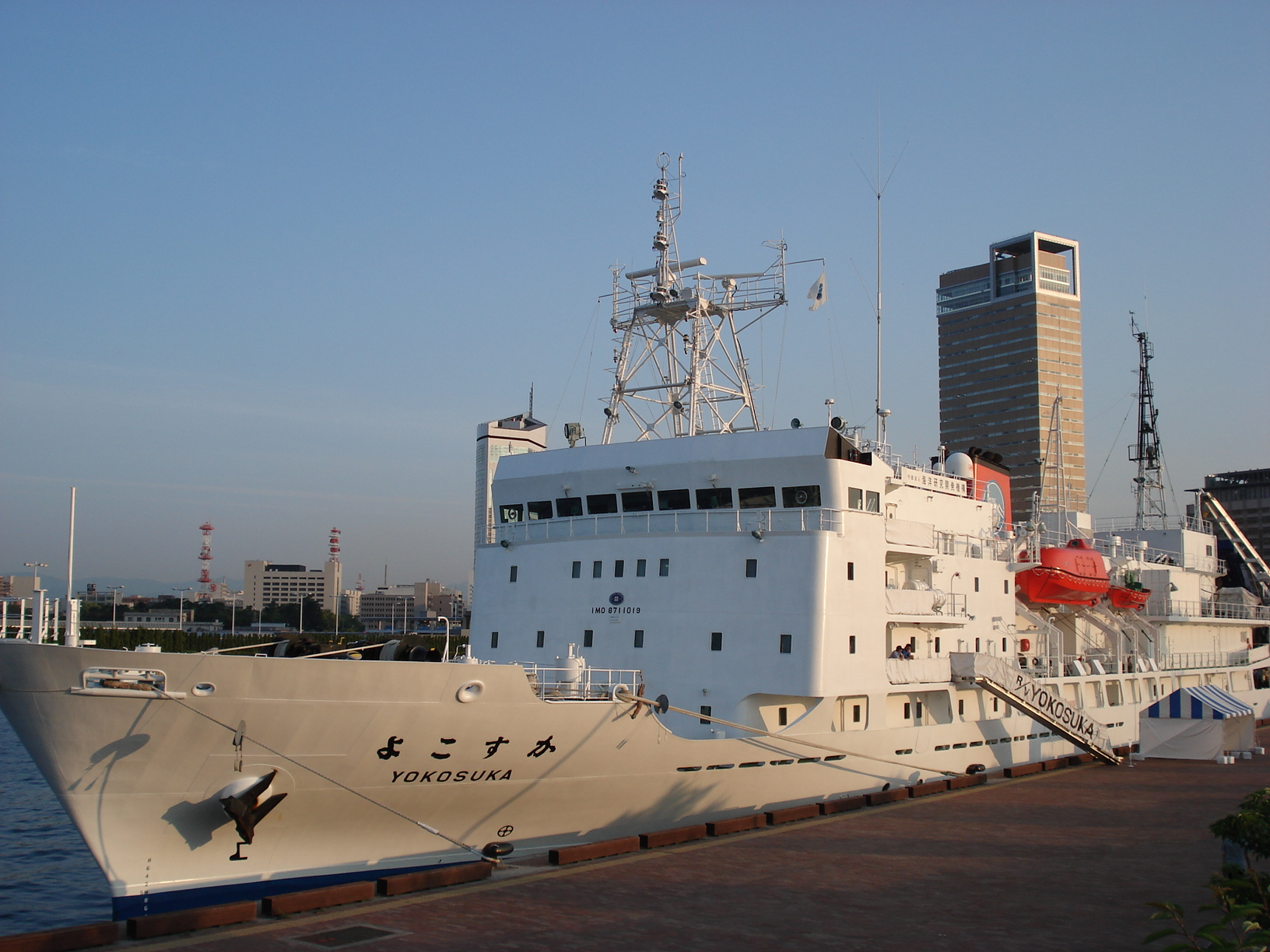 Yokosuka at Sunport Takamatsu, Kagawa, Japan. IMO Number: 8711019 MMSI Number: 431460000 Callsign: JCOY Length: 105 m Beam: 16 m